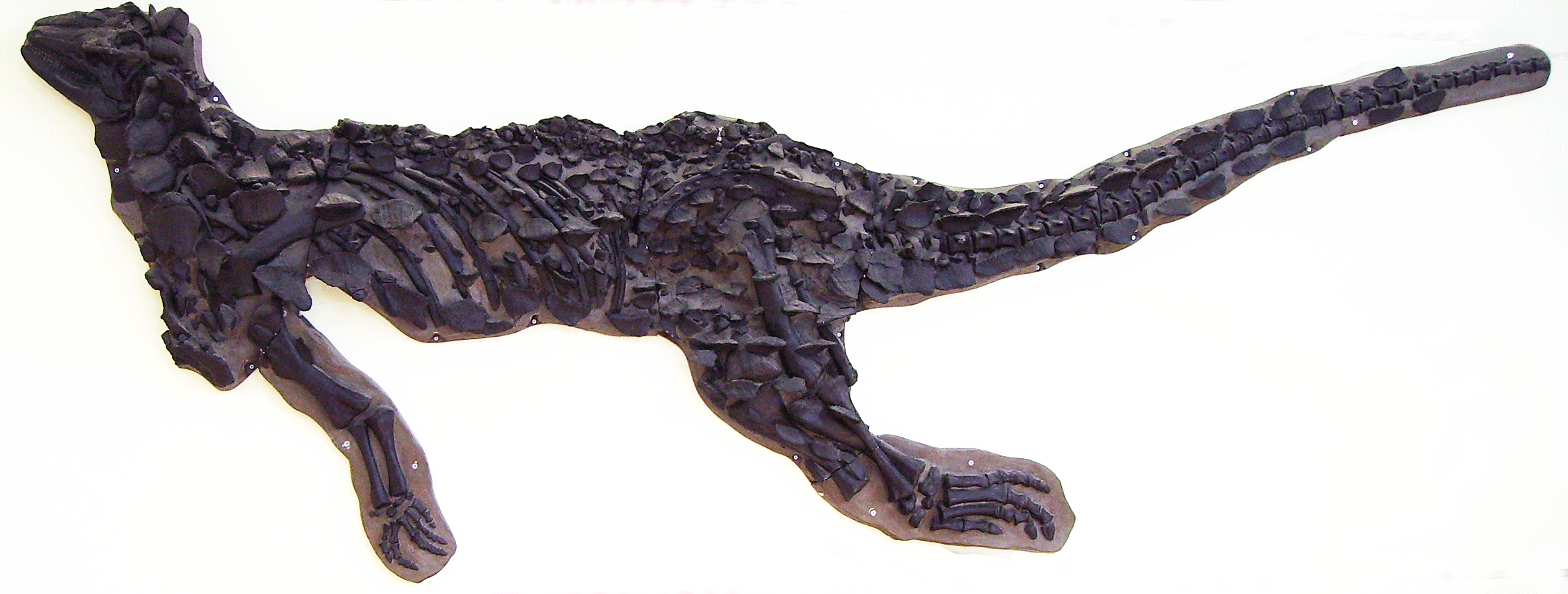 Cast of a nearly complete Scelidosaurus skeleton showing fossilsed bony scutes, Charmouth Heritage Coast Centre